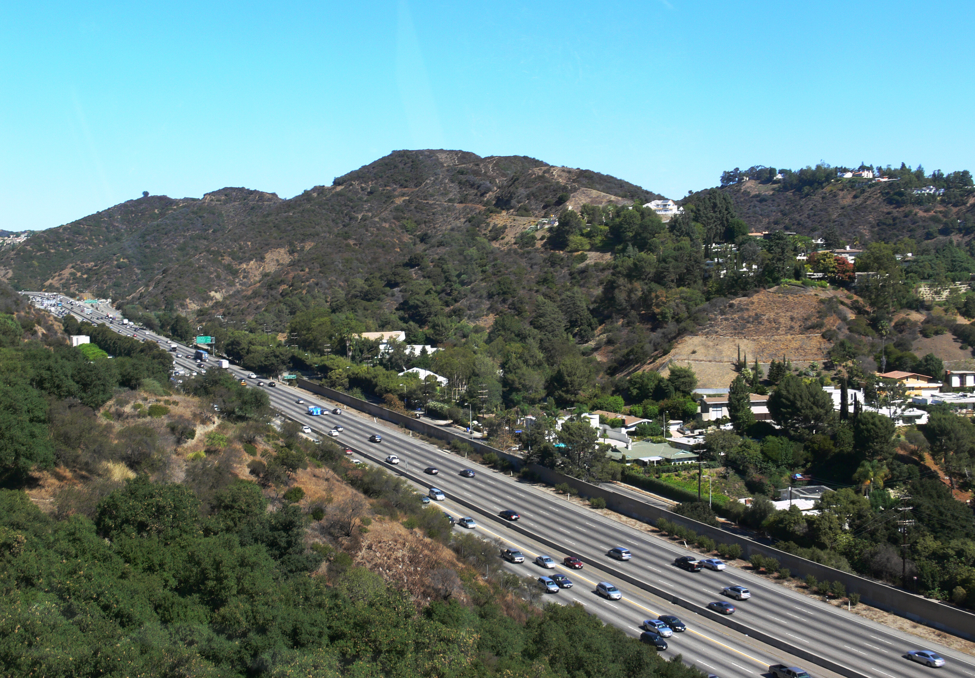 The Santa Monica Mountains, with 405 freeway climbing Sepulveda Pass past Bel Air. View north from the Getty Center Monorail.